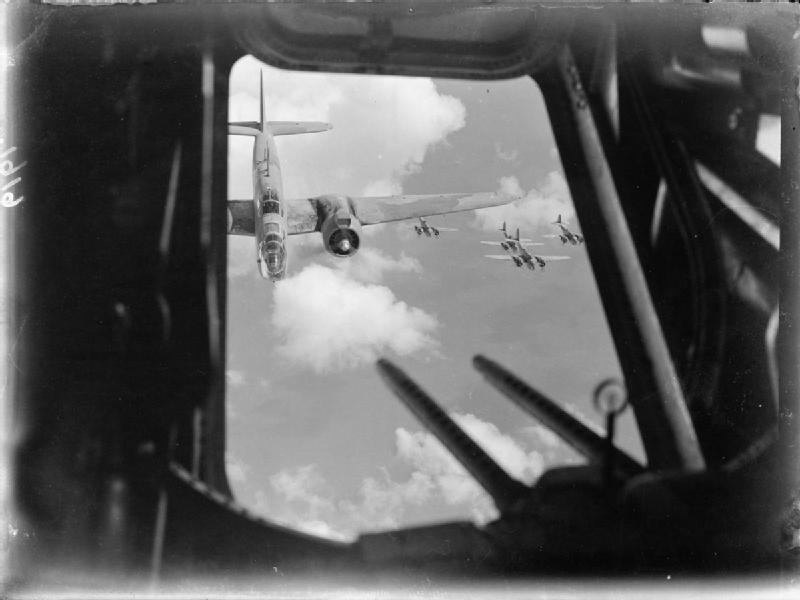 Royal Air Force- Operations in the Middle East and North Africa, 1939-1943. A formation of Martin Baltimores of No. 232 Wing RAF flying to attack enemy positions during the Battle of El Alamein, seen through the lower gun hatch of another aircraft.